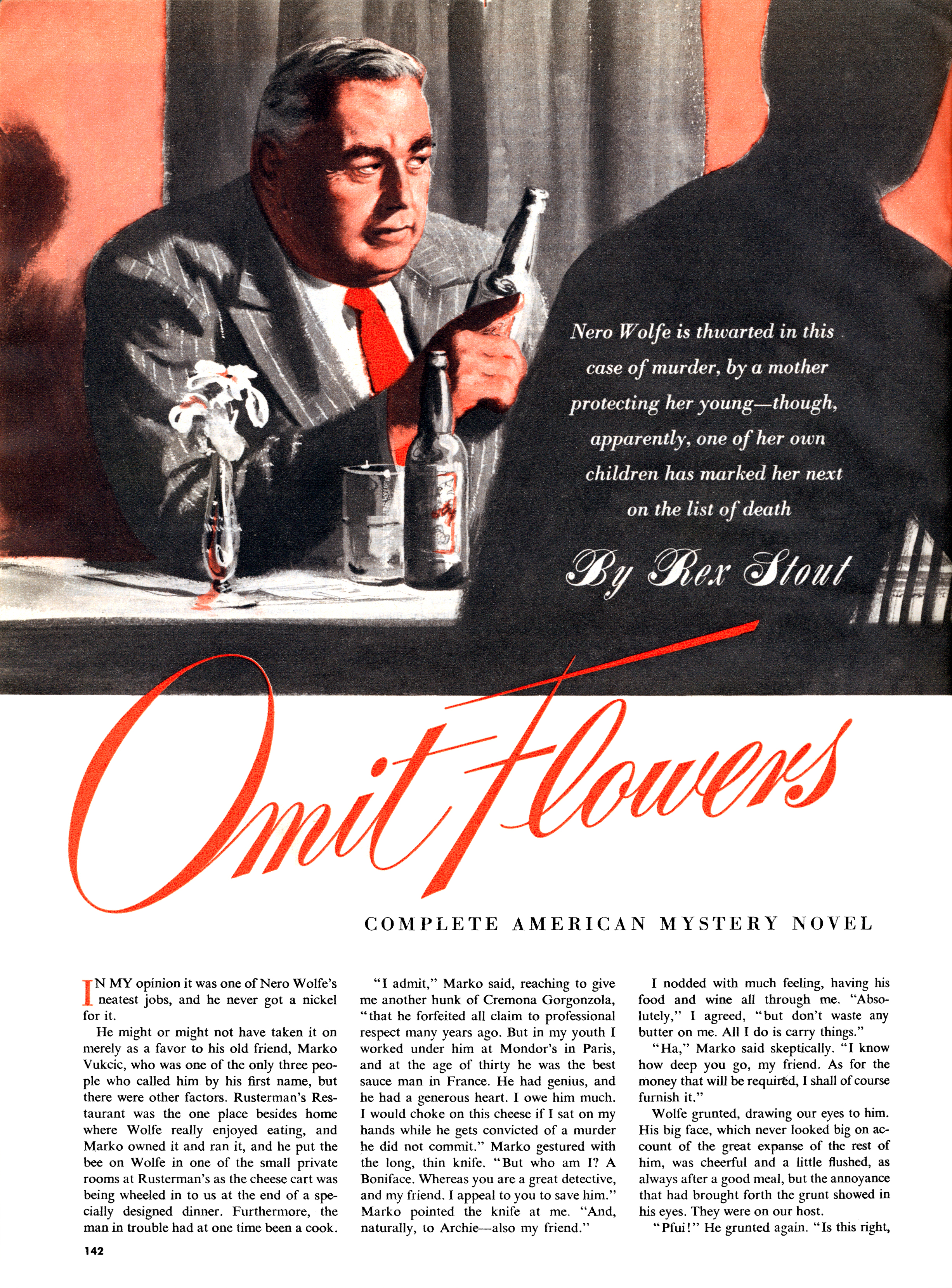 Illustration from The American Magazine printing of "Omit Flowers", a Nero Wolfe short story by Rex Stout